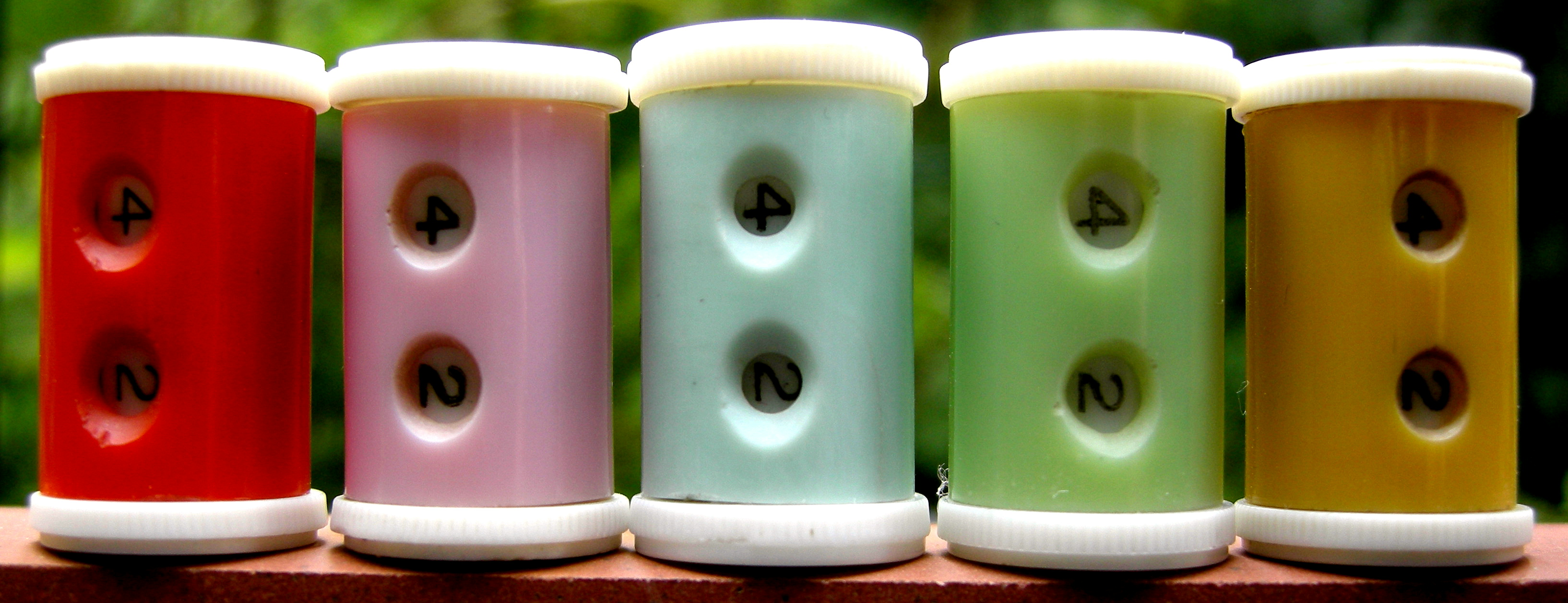 Millward Ro-Tally knitting row counters manufactured 1950s